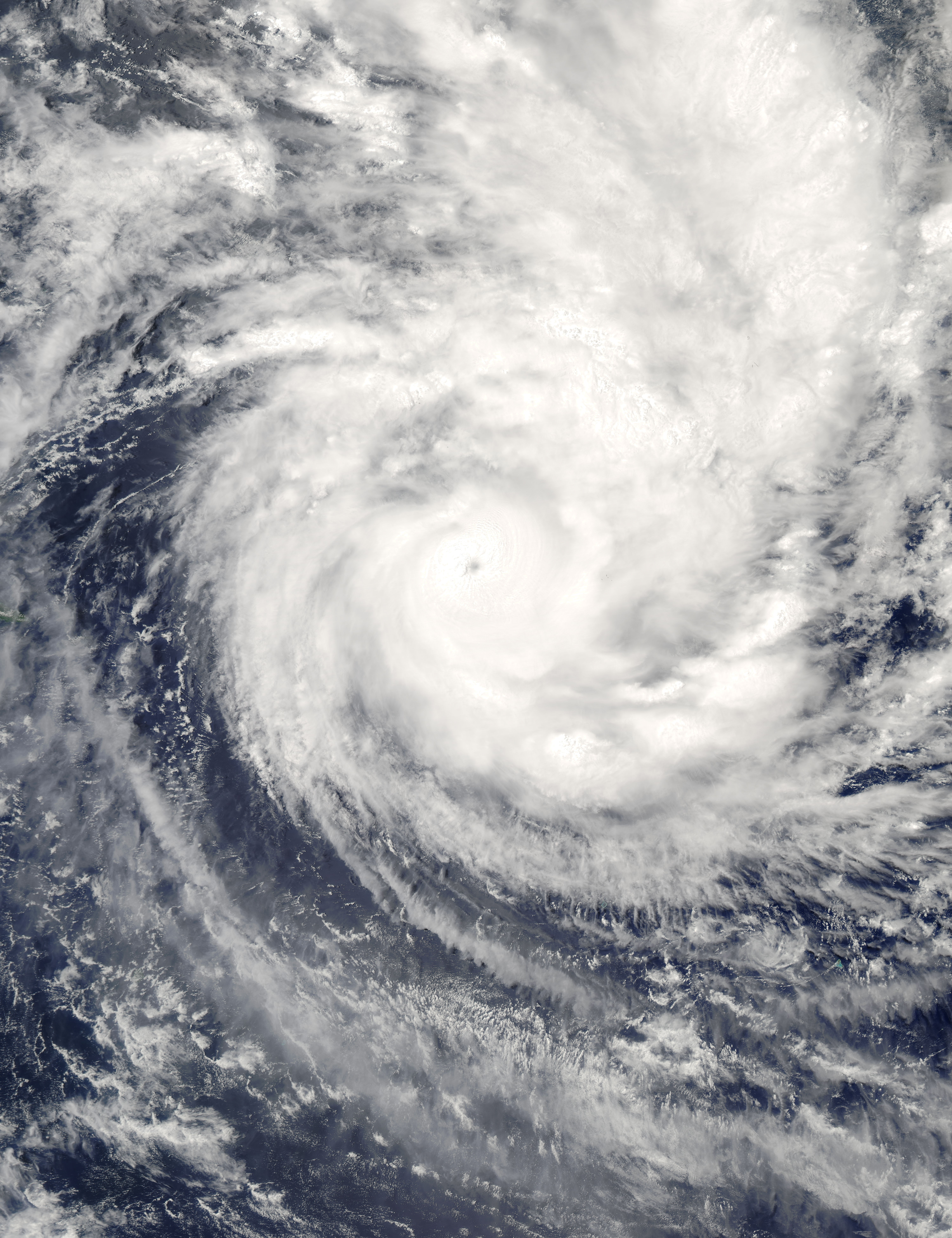 Cyclone Percy continued its rampage across the South Pacific on March 1, 2005, after battering the Northern Cook Islands with its powerful 140-knot wind gusts. This Moderate Resolution Imaging Spectroradiometer (MODIS) image taken by NASA’s Aqua satellite at 2:40 local time on February 28 (00:40 UTC on March 1), shows that the storm now has a clearly defined eye. When the image was taken, Percy had just passed over Pukapuku and Nassau, leaving both in shambles. According to news reports, no structures escaped damage on Nassau and just 10 buildings remain intact in Pukapuku. The storm had sustained winds of 213 kilometers per hour (132 mph) with gusts to 260 kph (160 mph), making it a Category 4 storm on the Saffir-Simpson scale. The storm is weakening as it moves south towards the southern Cook Islands and Rarotonga. Percy is the fourth cyclone to strike the Cook Islands in the past four weeks.